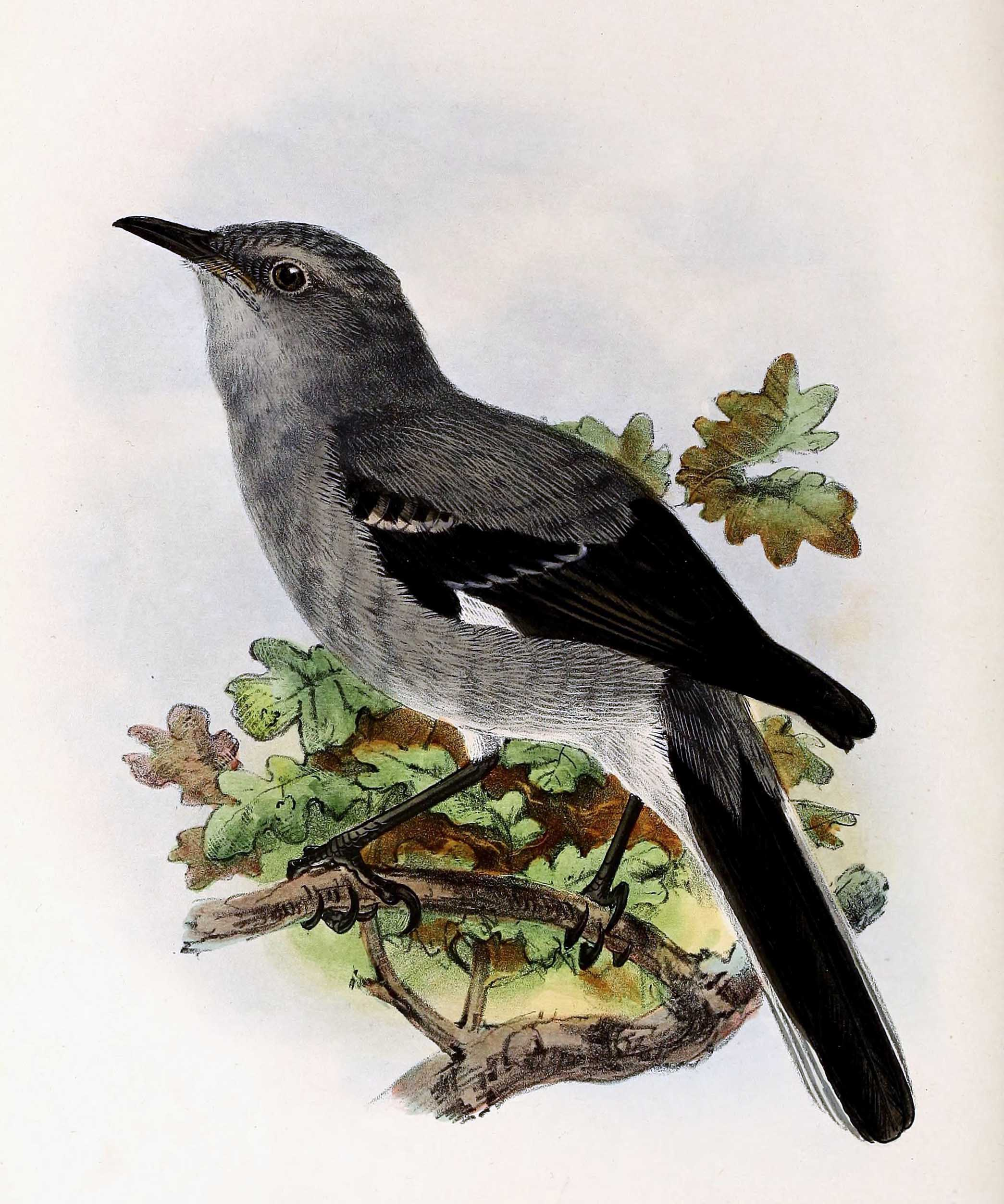 « Mimus polyglottis » = Mimus polyglottos (Northern mockingbird)